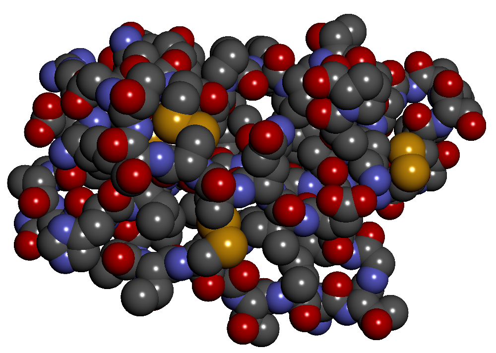 Chemical structure of a single asymmetric unit of alpha-cobratoxin. Created using Accelrys Discovery Studio. Based on data reported in J.Biol.Chem. (1991) 266: 21530-21536